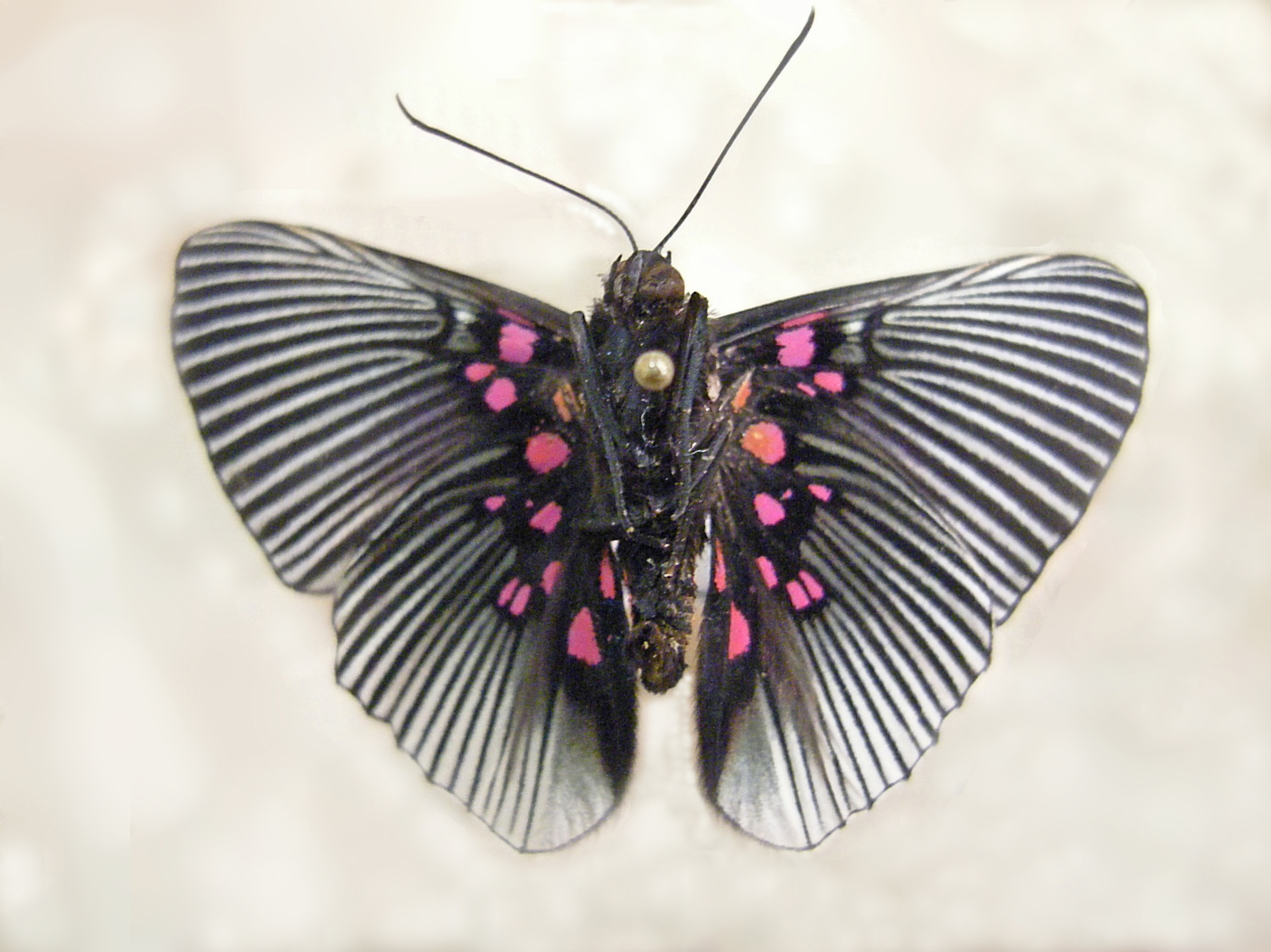 Lyropteryx apollonia. Part of Don Ehlen's "Insect Safari" collection. If you know more about the individual species here, please feel free to flesh out this description.